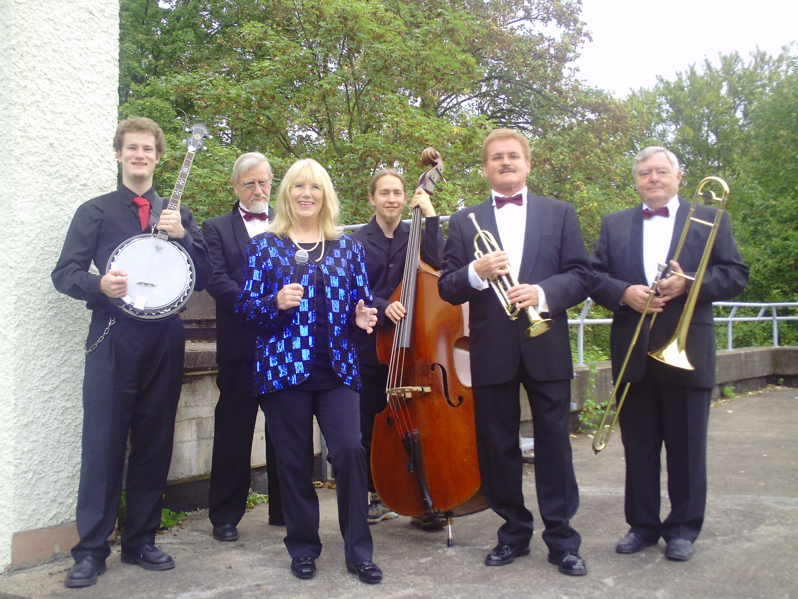 Rose Nabinger, Heinz Teitge, Klaus Wittkamp, Markus Wach, Wolfgang Fett und Louis Teitge